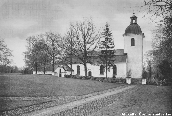 Lillkyrka church outside Örebro, Sweden